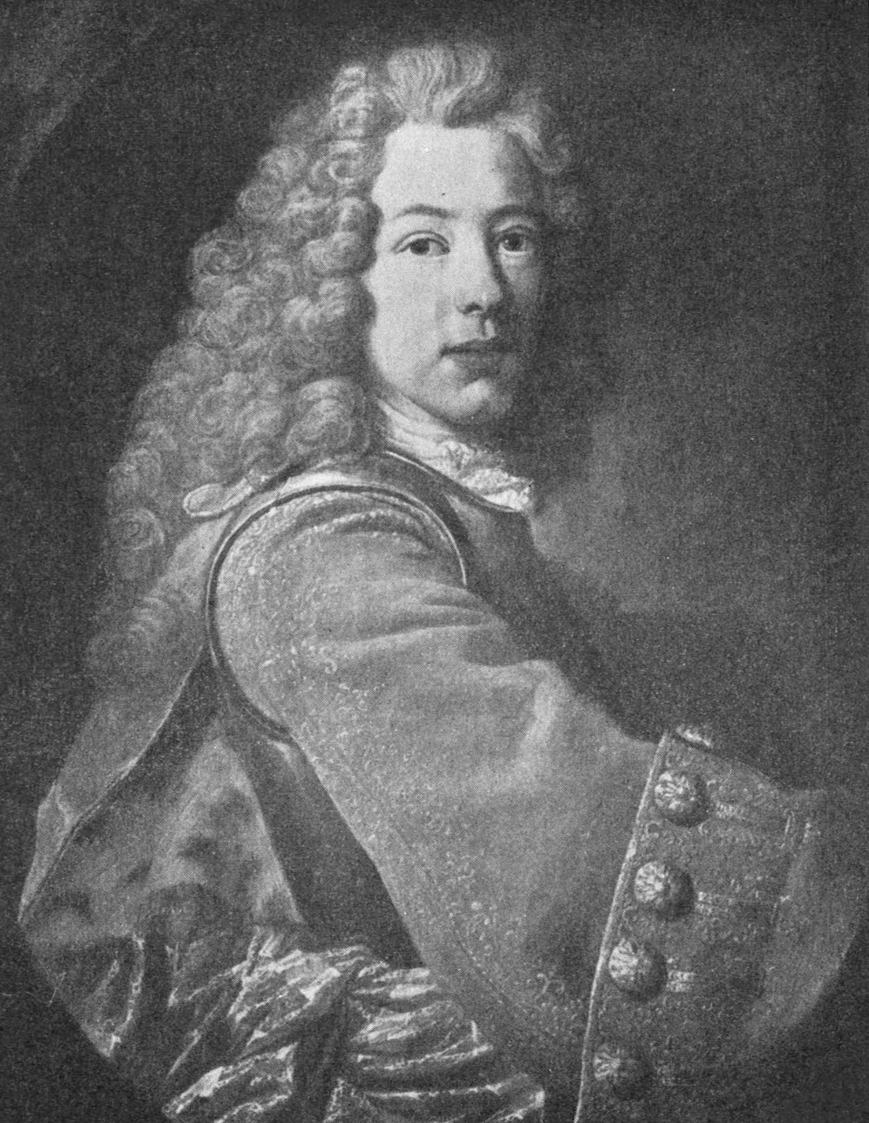 Nils Bonde af Björnö (1685-1760), Swedish count, officer and county governor of Södermanland, at the age of 19.